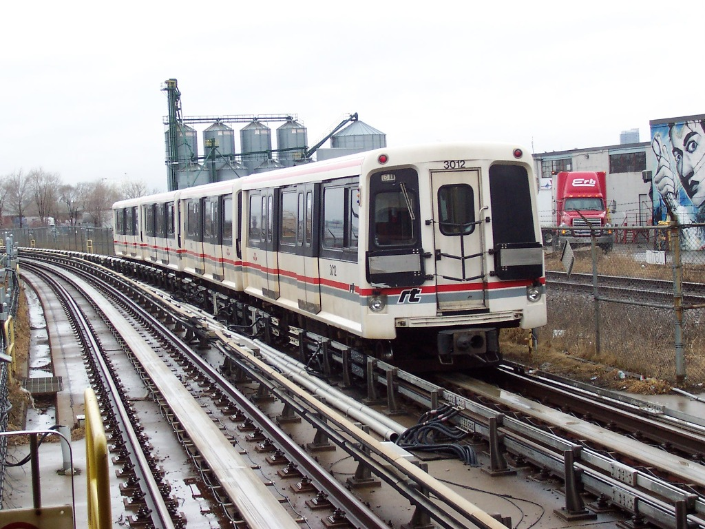 TTC Mark I vehicle #3012, leaving the Lawrence East Station bound for McCowan Road on the Scarborough RT line.